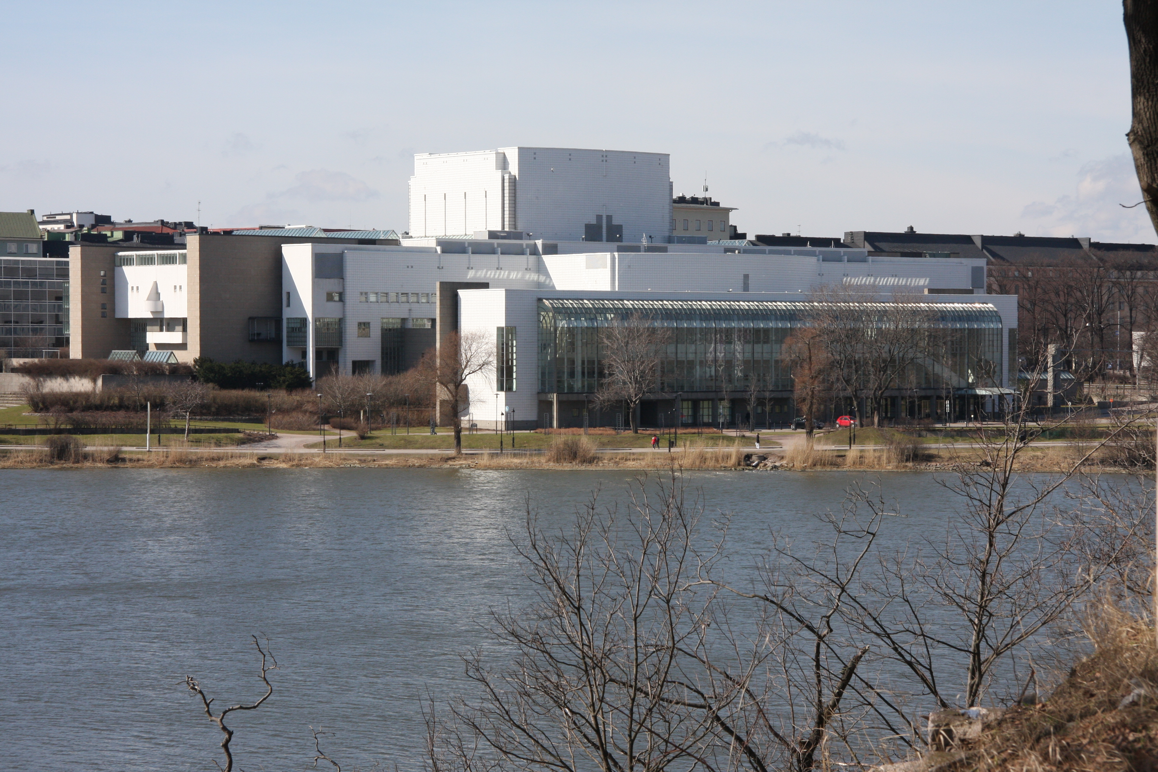 Opera house